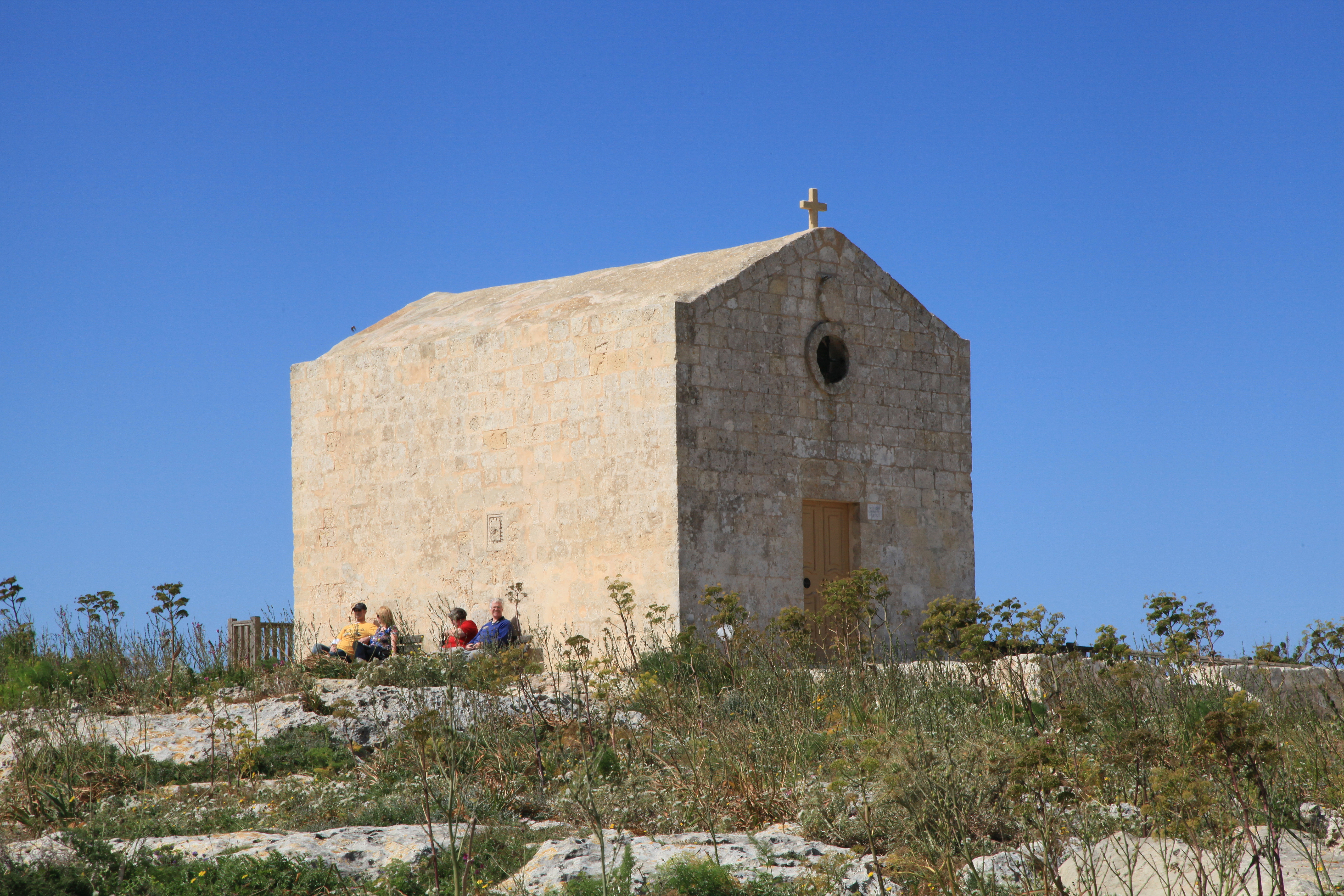 St. Mary Magdalene Chapel at Triq Panoramika in Dingli, Malta